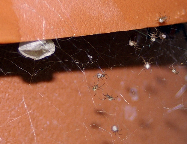 Baby Latrodectus hasselti (Redback spiders) photographed in Wagga Wagga, New South Wales.